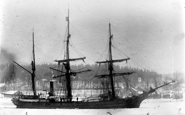 Svend Foyn's whaling ship Morgenen (1871) of Tønsberg. She was later sold and used as relief vessel for the Discovery Expedition under the name Morning.